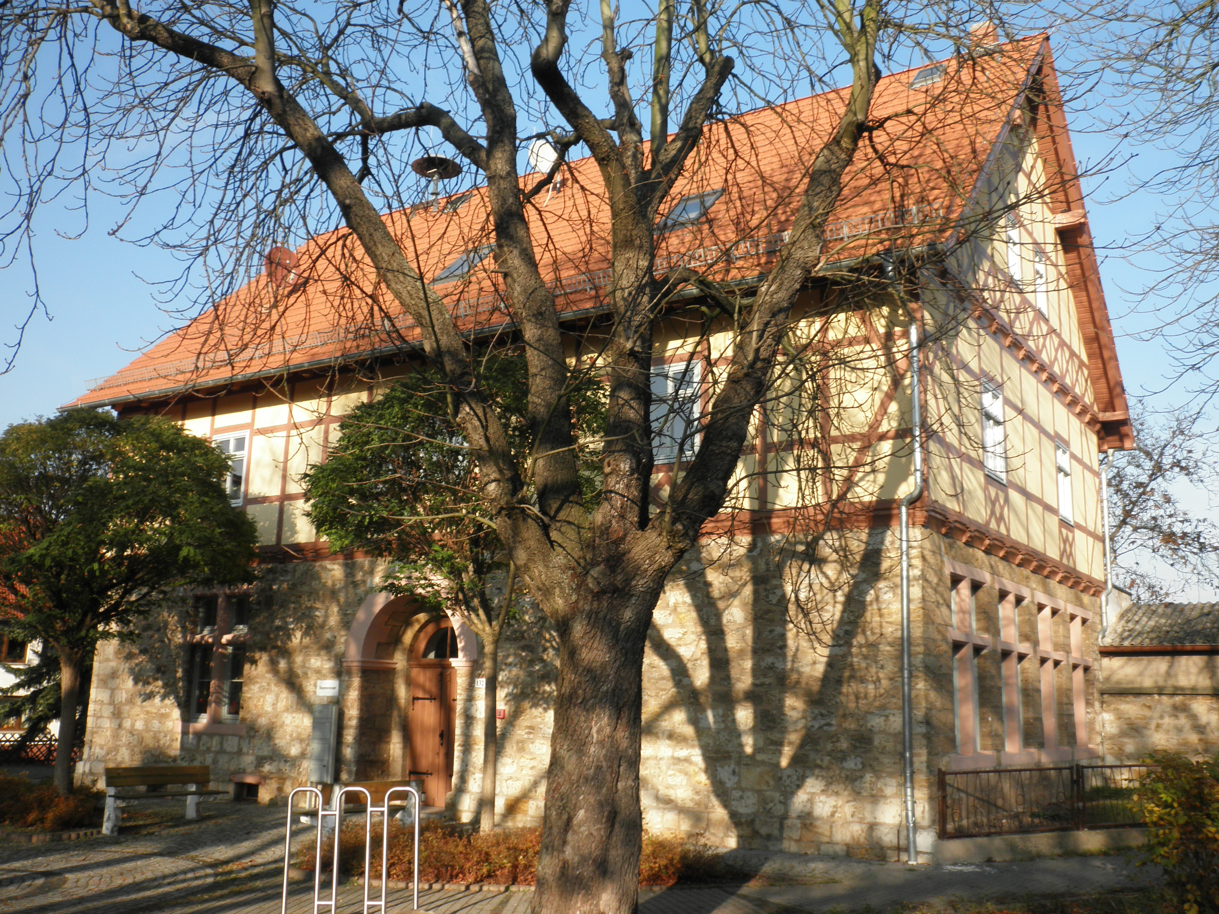 Townhall in Frömmstedt in Thuringia